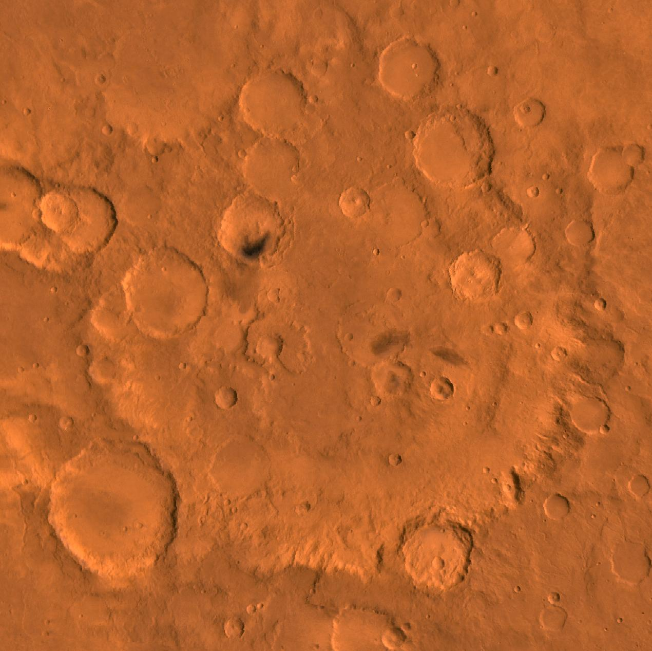 PIA00172: MC-12 Arabia Region Mars digital-image mosaic merged with color of the MC-12 quadrangle, Arabia region of Mars. Heavily cratered highlands dominate the Arabia quadrangle. The northeastern part is marked by a large impact crater, Cassini. Cassini is an ancient remnant of the many large impact events that occurred during the period of heavy bombardment. Latitude range 0 to 30 degrees, longitude range -45 to 0 degrees.